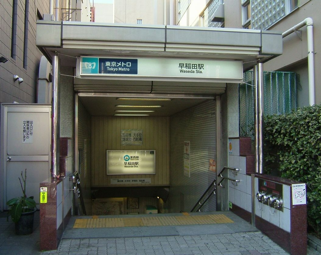 Entrance of Waseda Station, Tokyo Metro Tōzai Line